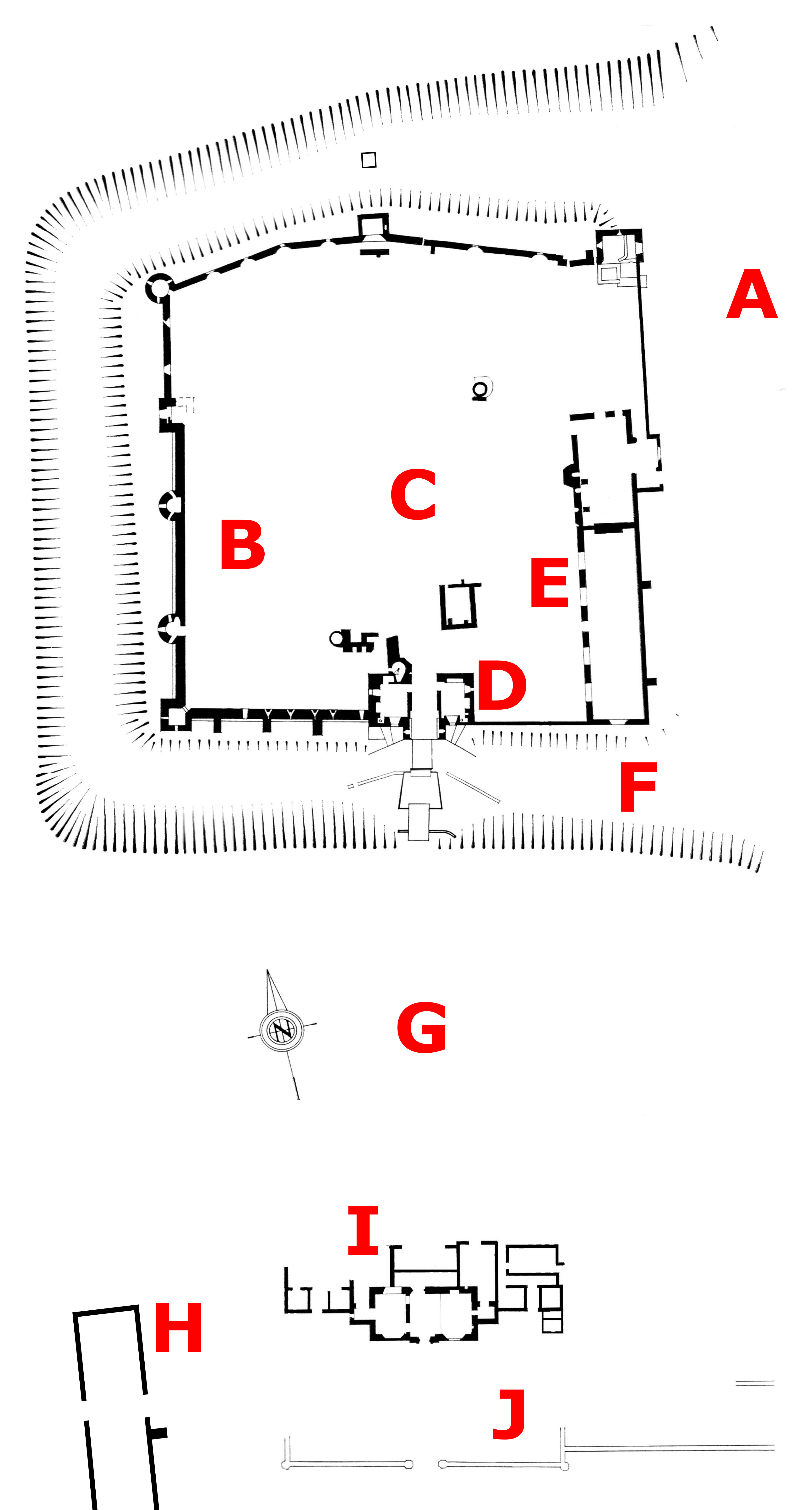 Map of Baconsthorpe Castle, ubdated after Dallas and Sherlock